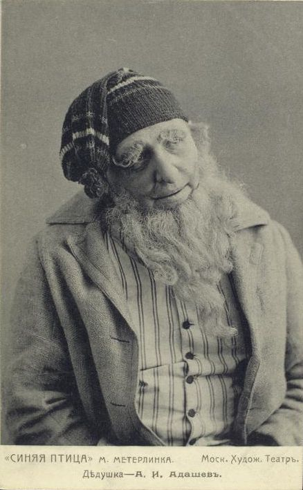 Aleksandr Adashev as Grandpa in Moscow Art Theatre play The Blue Bird (Maurice Maeterlinck).